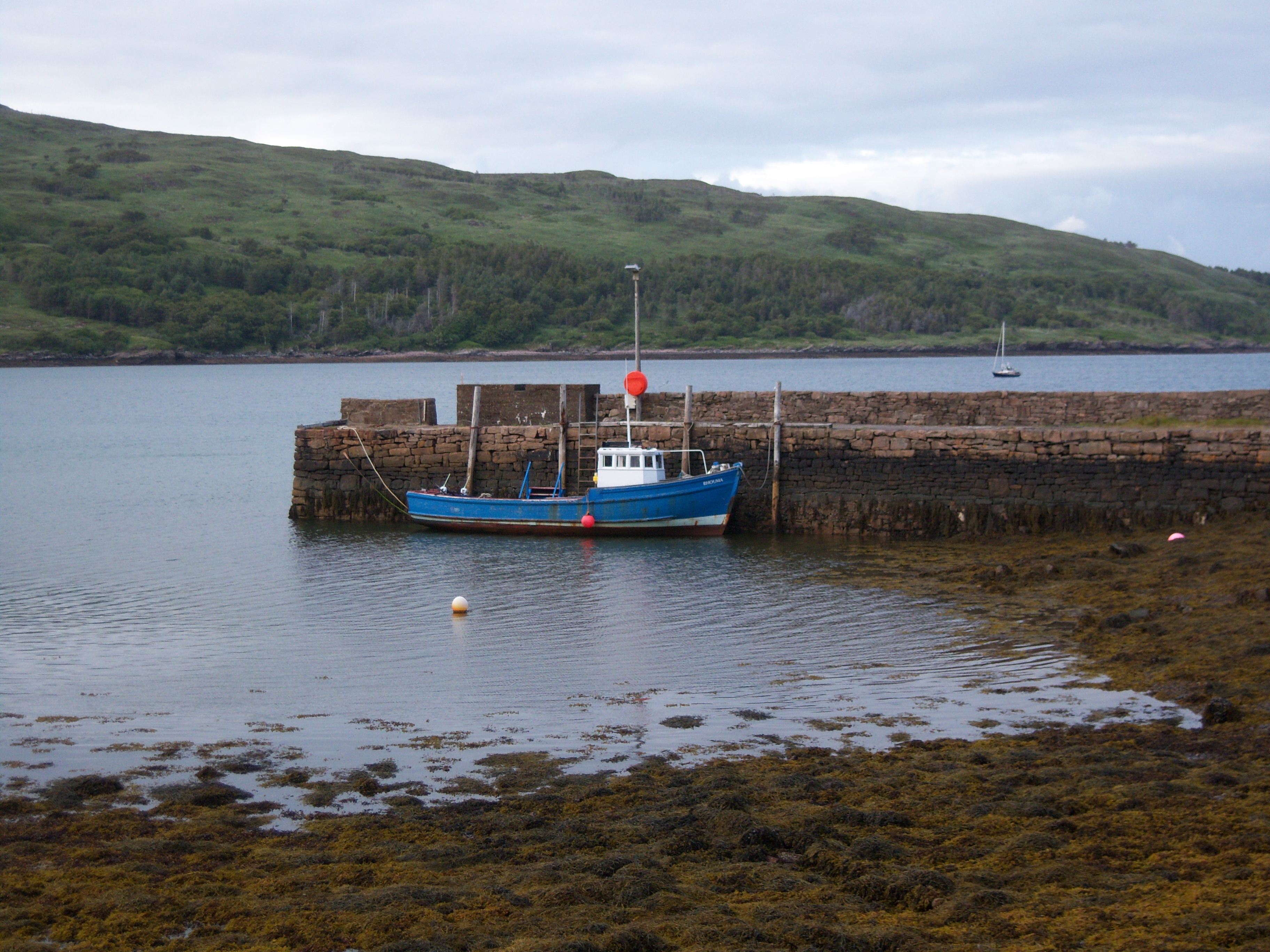 Until 2001 you had to use this boat to get from the ferry to land on Rùm!